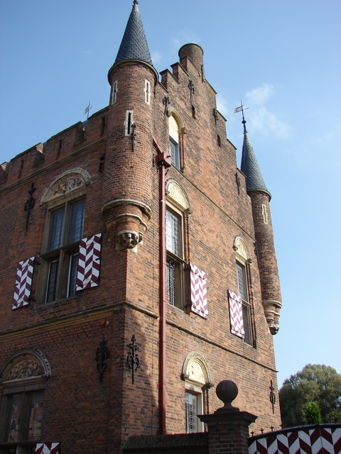 Maarten van Rossum House at Zaltbommel